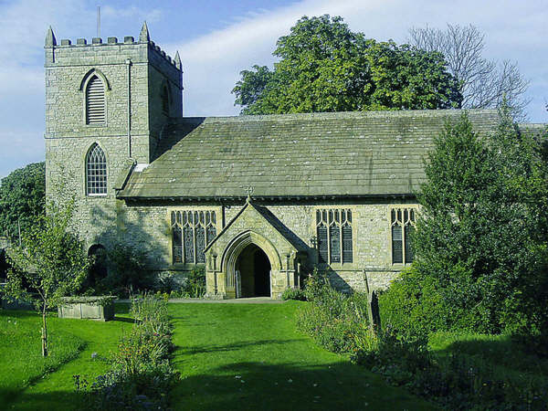 St Mary's church in Kettlewell This church was built in 1885 and is the third church to be built on this site.